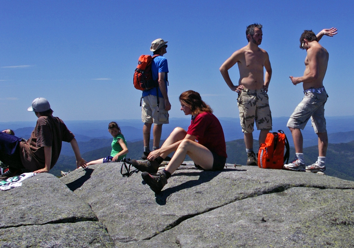 Hikers on the summit of Algonquin Peak, the second highest mountain in the U.S. state of New York